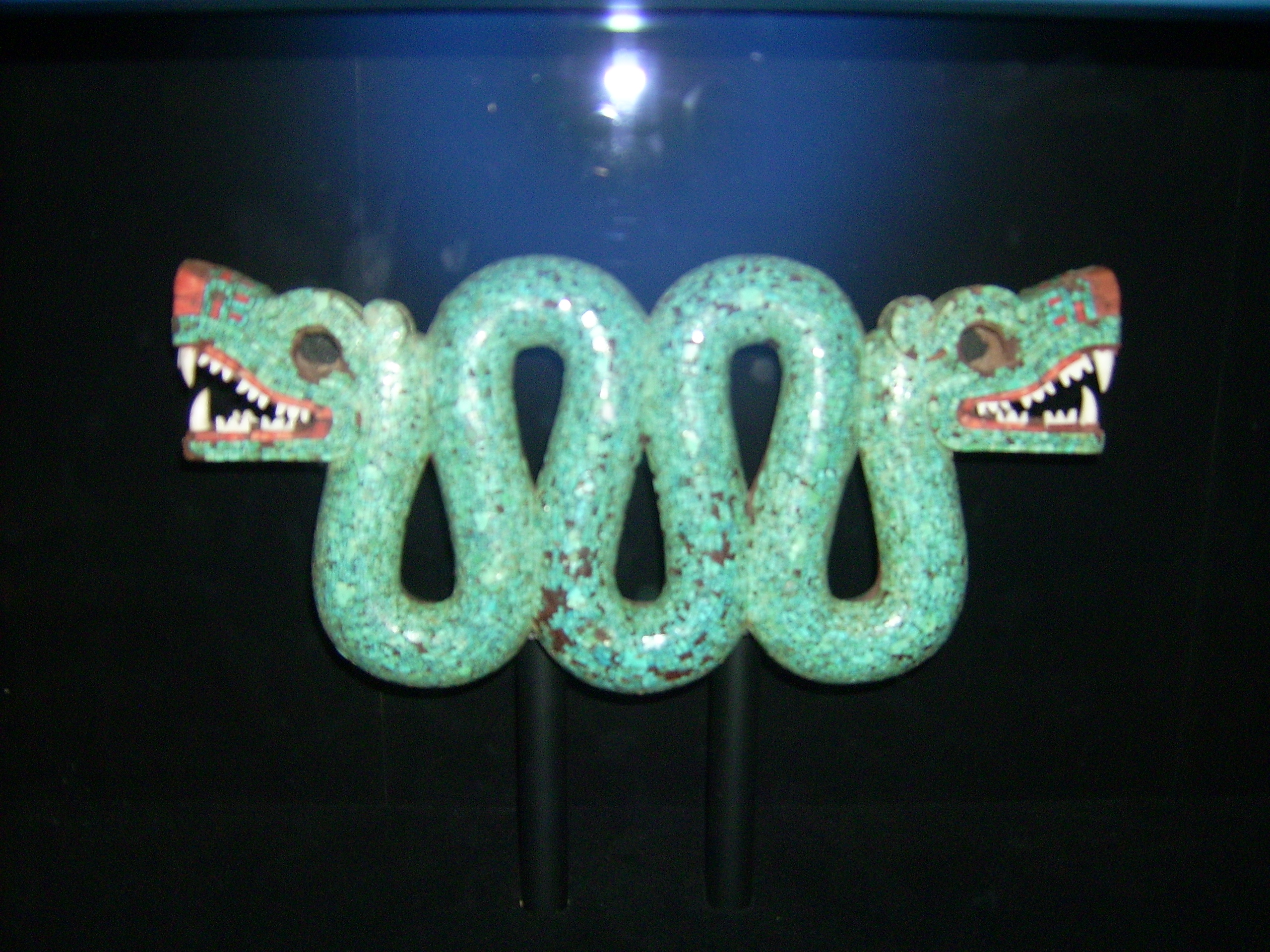 An aztec turquoise serpent chest ornament. At the British Museum. Taken by Akubra